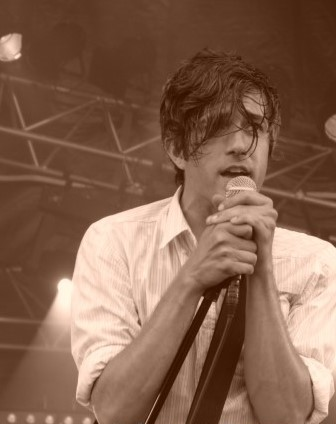 Keith Murray chanteur/guitariste des We Are Scientists Solidays 2006 photo de Sandra CARPENTIER